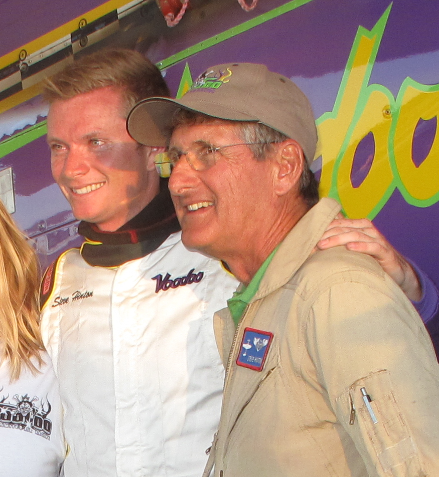 Race pilot Steven Hinton Jr., having just won the 2013 Reno Air Race Unlimited Gold Championship, with his father and past champion pilot Steve Hinton.